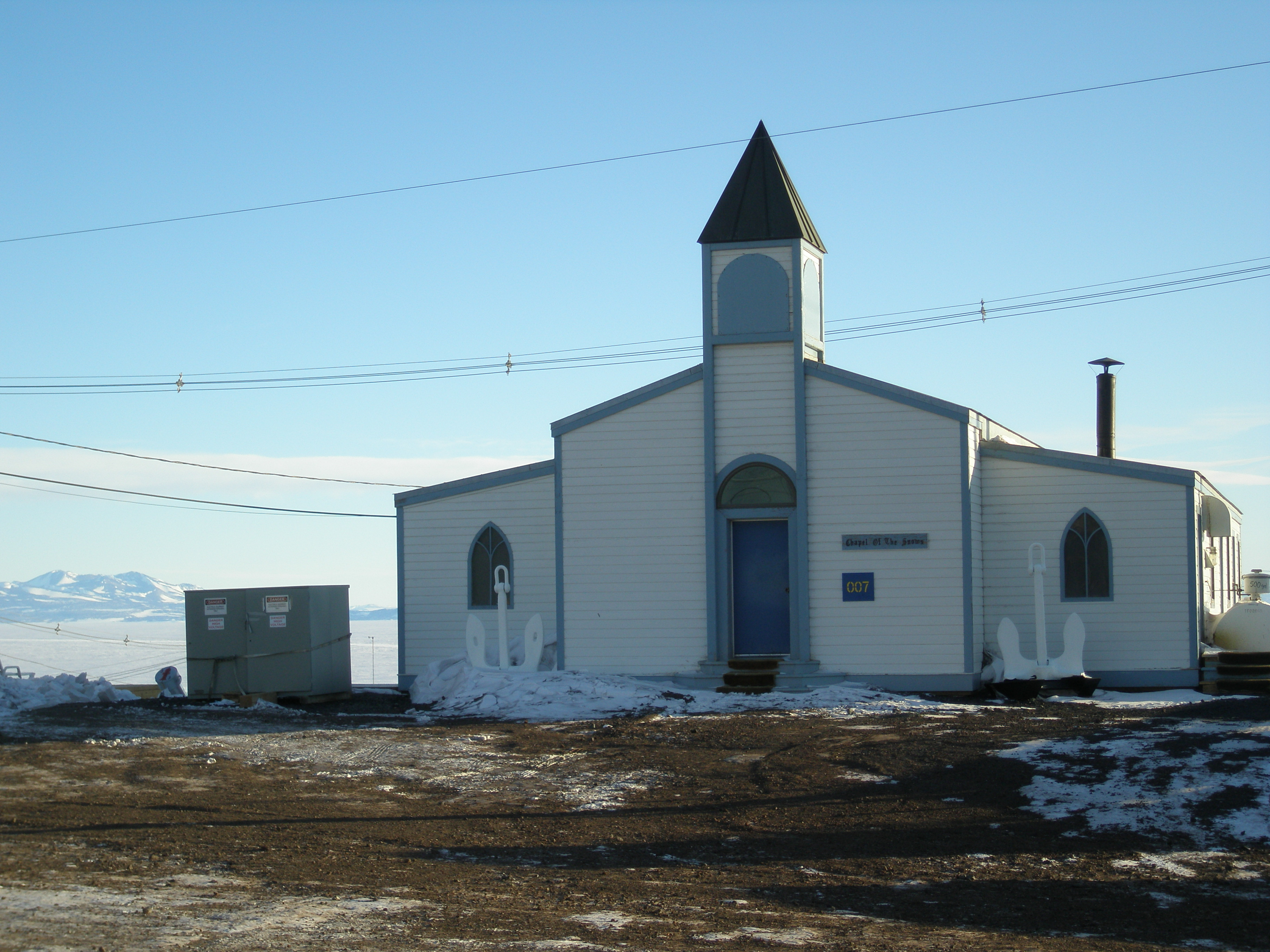 Chapel of the Snows